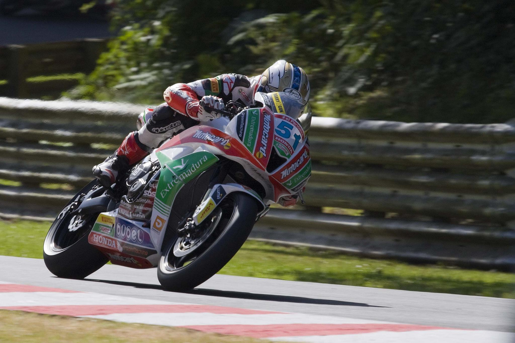 2008 Brands Hatch Supersport World Championship round – #51 Santiago Barragán – Honda CBR600RR – Glaner